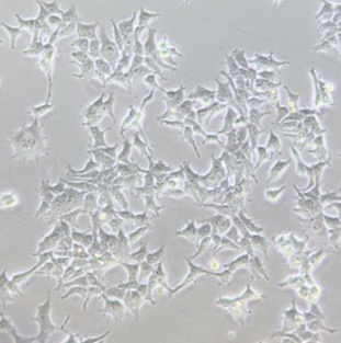 HEK 293FT cells cultured in a plate.